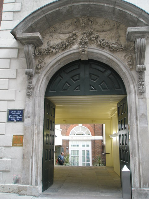 Archway through to Turner's Courtyard, College Hill